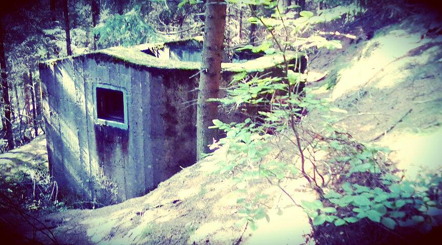 Czechoslovak light pillboxes Model 37 type C